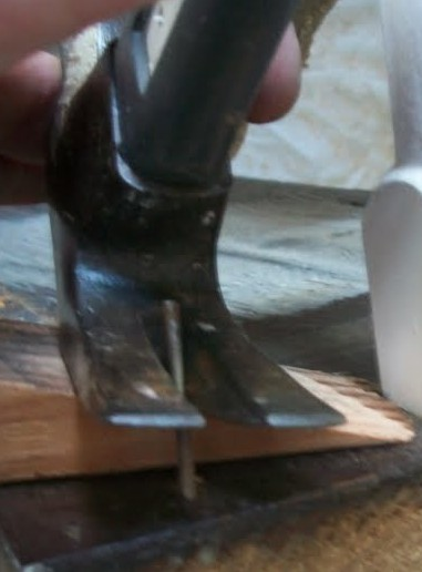 Handyman technique. If a nail is long, the claw of the hammer may not pull it up. So, add a board between the wood and the claw to give greater grip. Source of picture: here and public domain declaration on starter article here. Questions -- write to my Wikipedia page or email me at